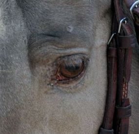 Hazel eyes and freckled skin of a classic champagne.